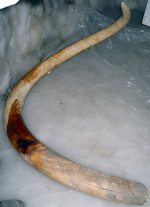 Yukagir's tusk. Dan Fisher at the University of Michigan has sampled this tusk and we are working on constructing a life history.